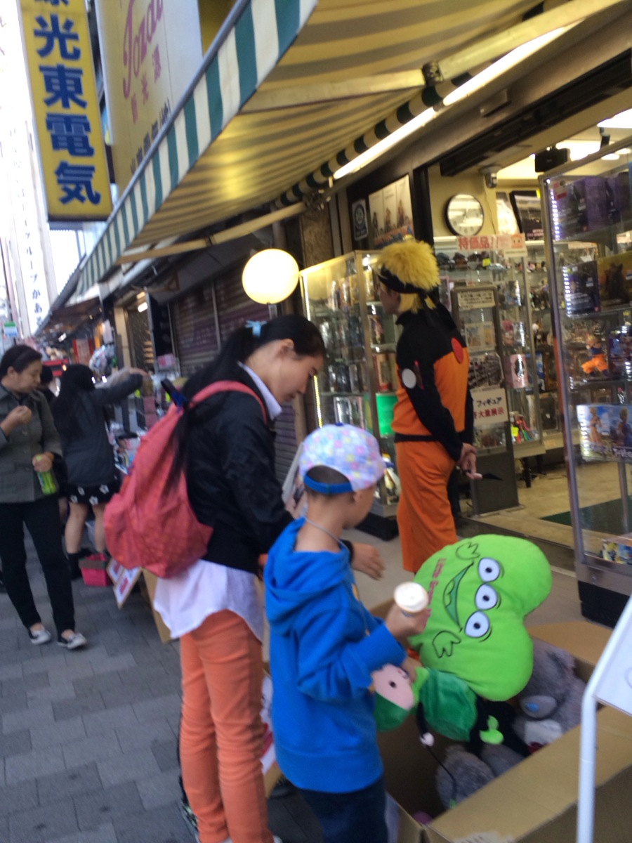 Naruto cosplayer attracting customers for a Manga and Anime shop